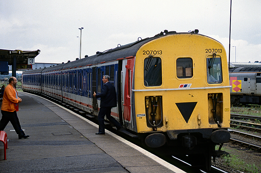 207013 3D East Sussex DMU, consisting of vehicles 60138+60612+60912 in Network South East livery, changes drivers at Eastleigh. Scanned from a Fujichrome 35mm slide.